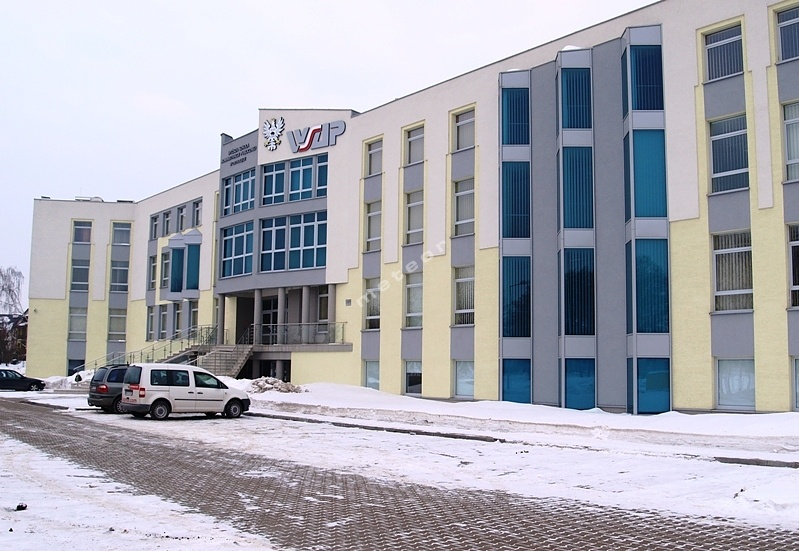 WSAP in Ostrołęka